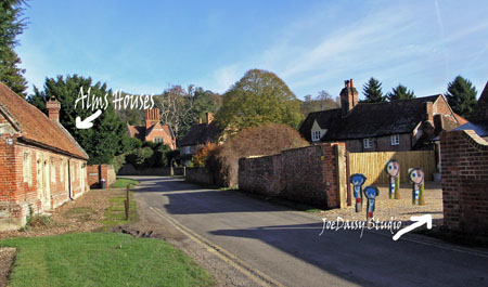 Mapledurham village, Oxfordshire, with 17th-century almshouse (left) opposite the Grade II listed building that is JoeDaisy Studio (right)